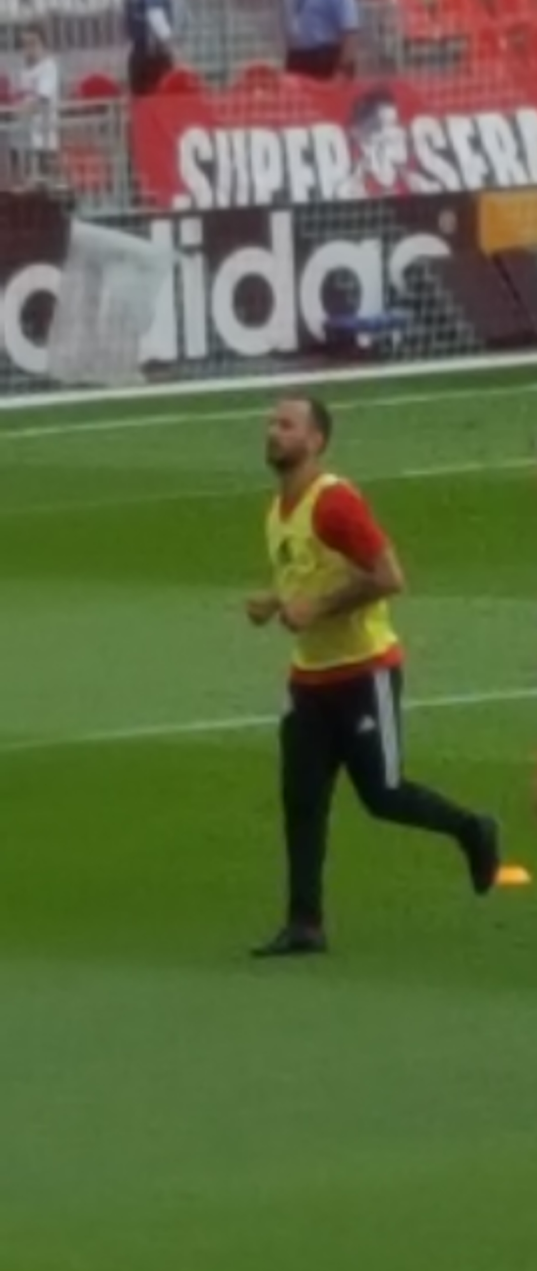 Spanish soccer player Víctor Vázquez Solsona warming up for a game against the Colorado Rapids for Toronto FC on July 22, 2017